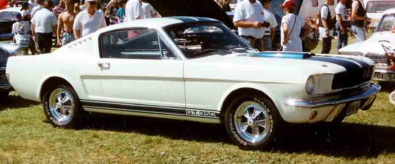 Shelby GT350